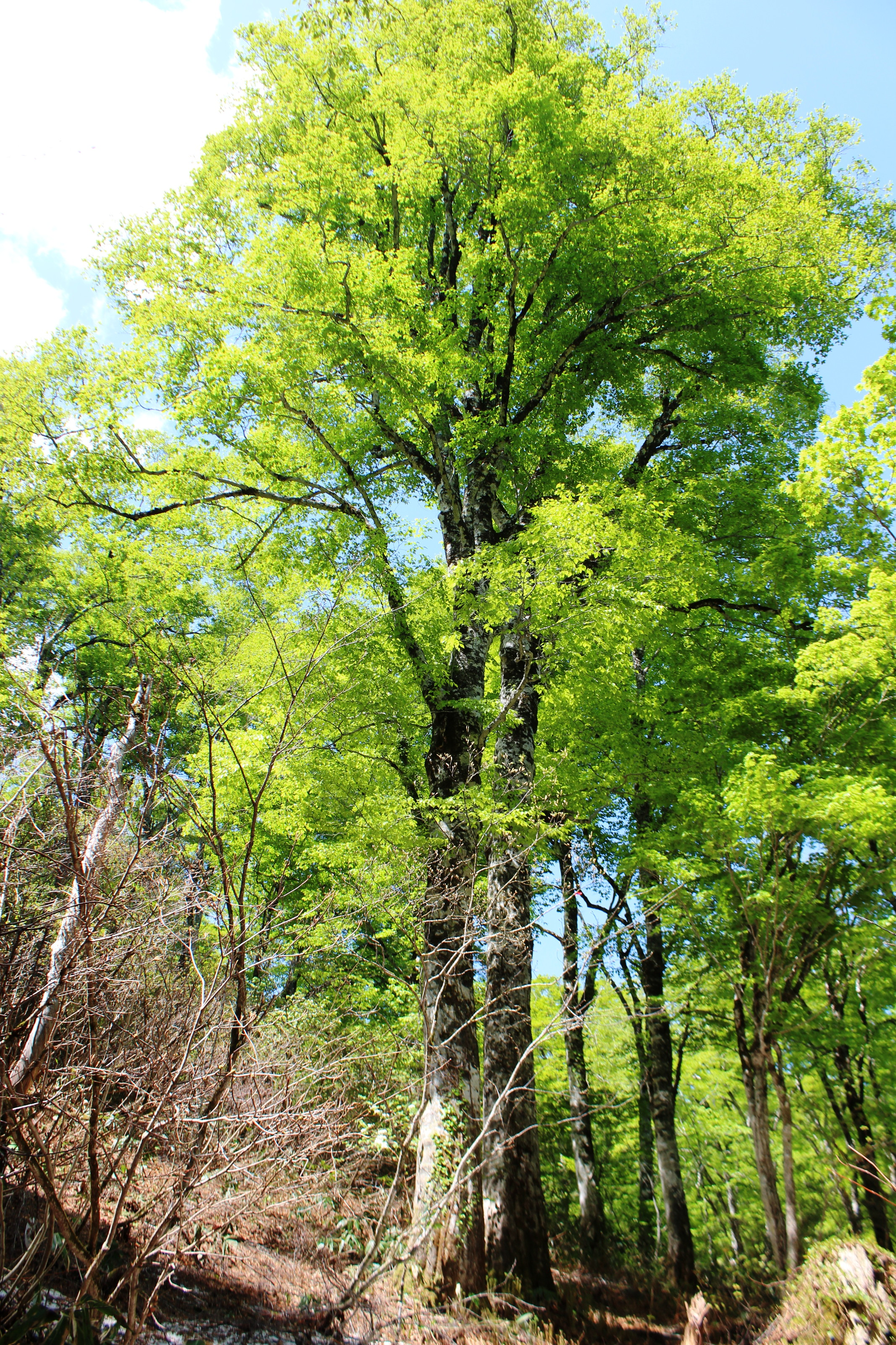 Fagus crenata, in Mount Mominuka, Gifu prefecture, Japan.